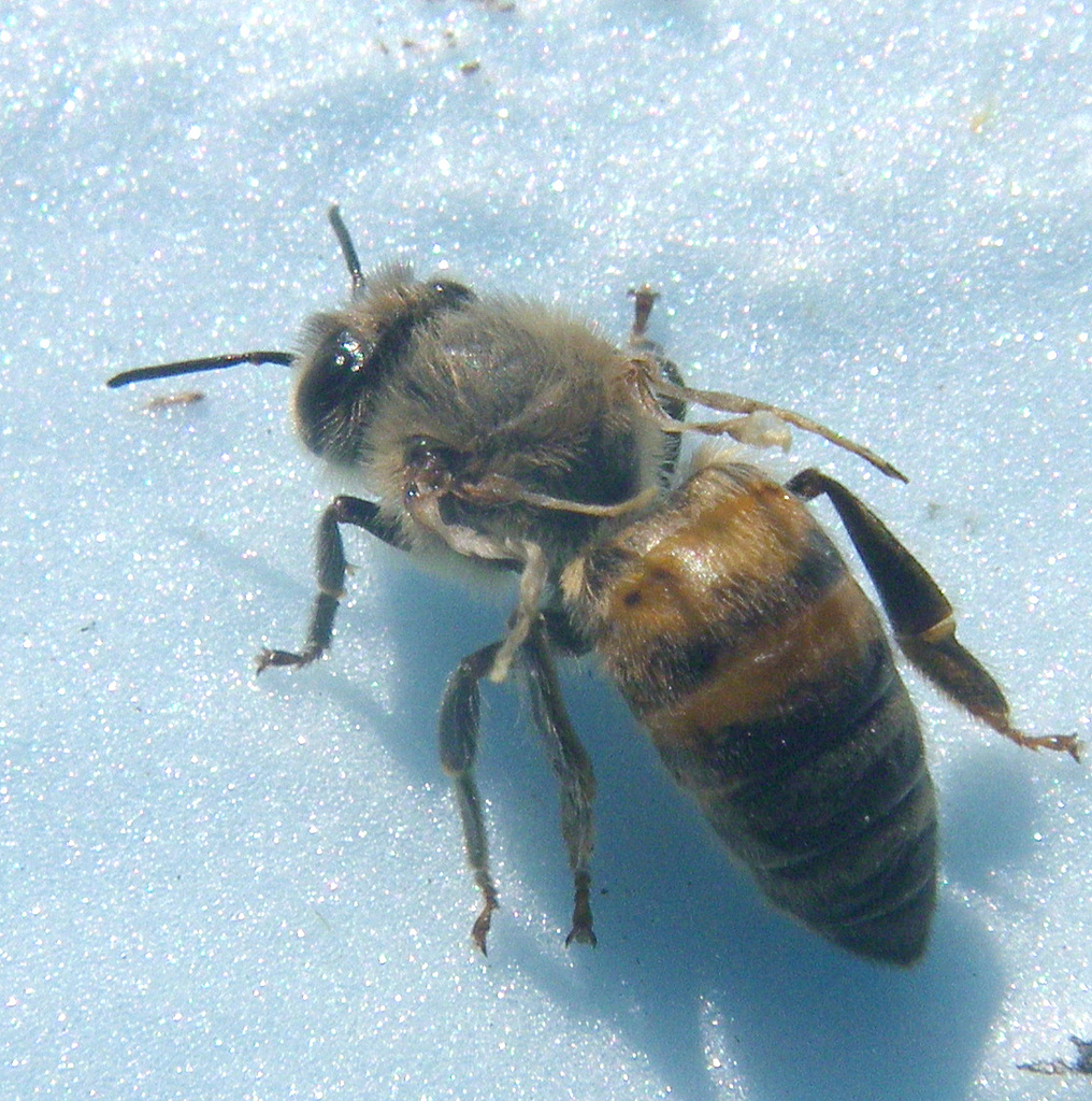 A honey bee with Deformed wings. For more info, photos and video